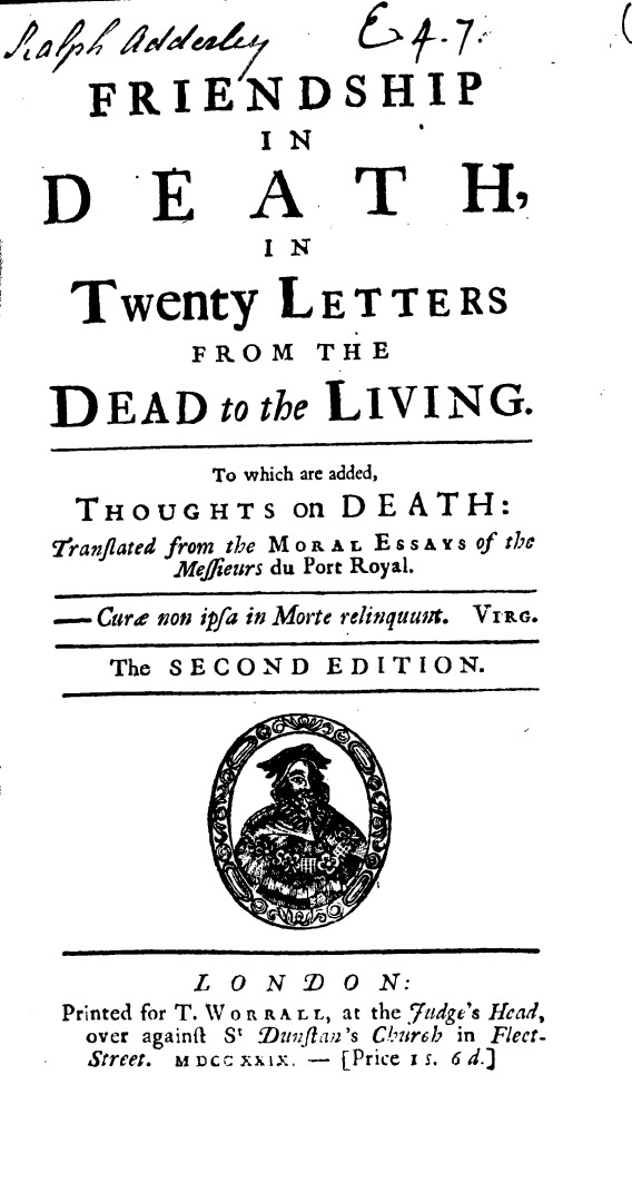 Title page of Friendship in Death, 2nd edition 1729